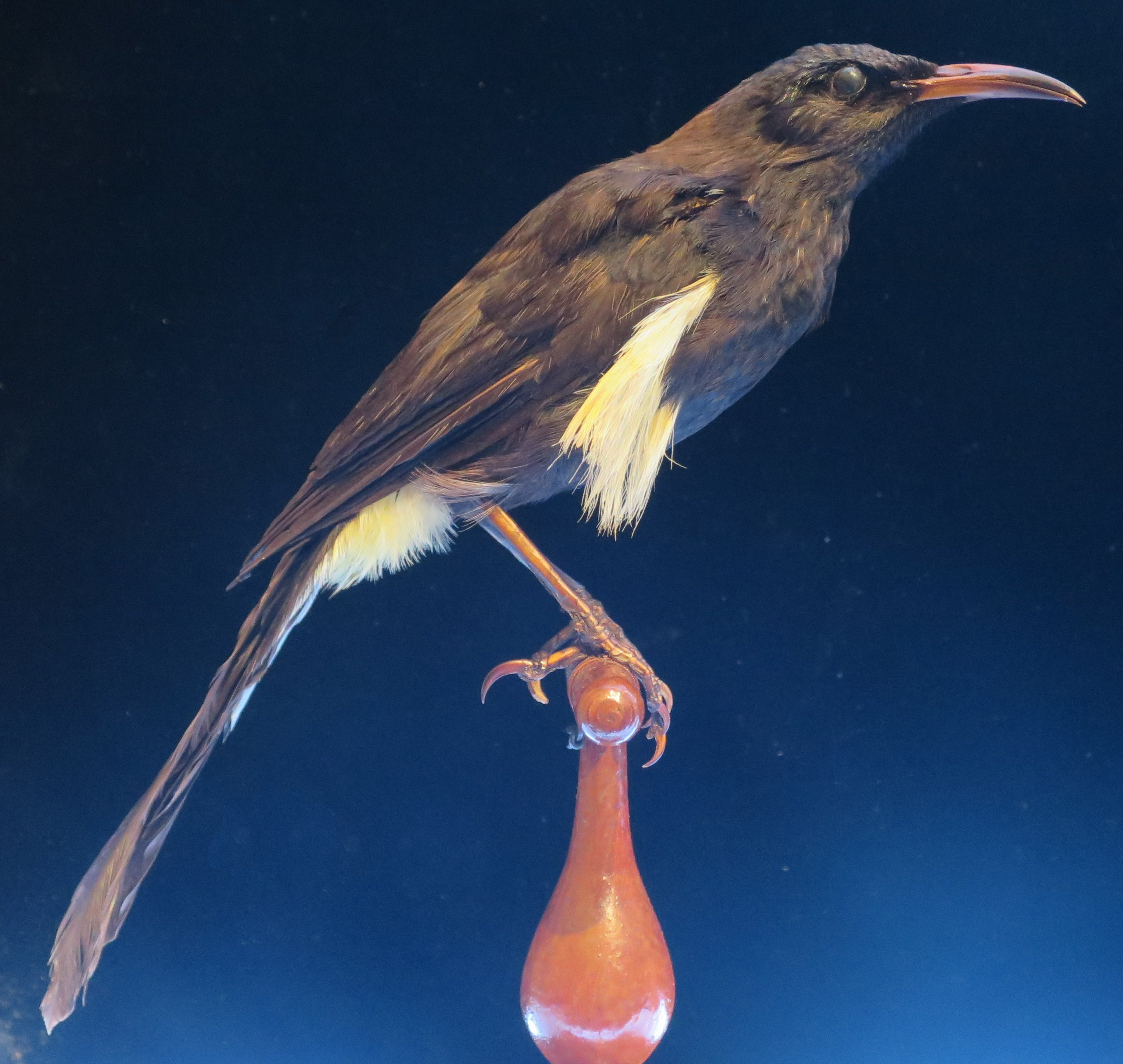 Moho nobilis (Merrem.), Bishop Museum, Honolulu